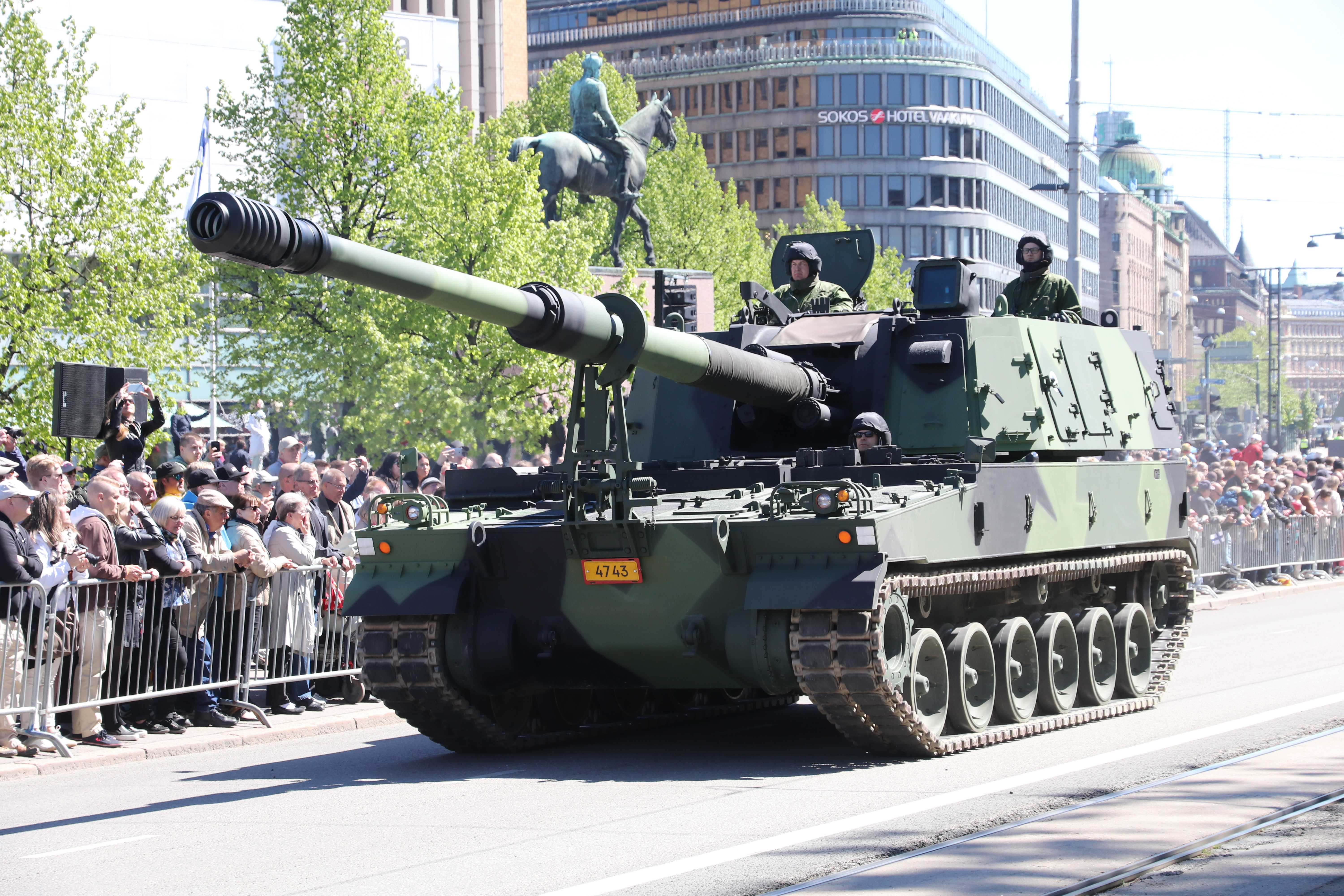 Finnish defence forces flag day 2017 parade: K9 Thunder.